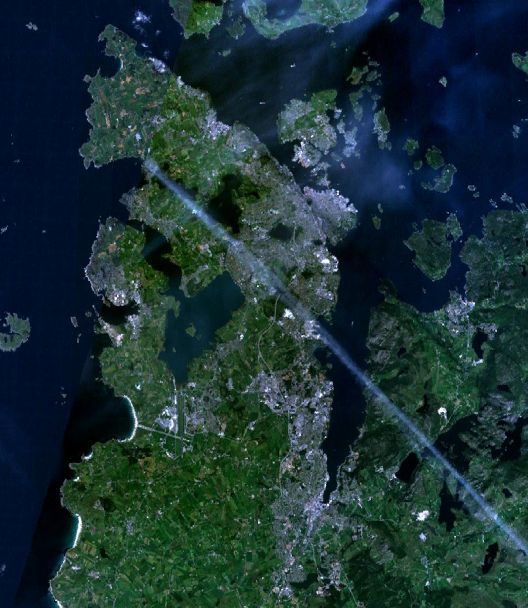 Satellite imagery of two fjords, Hafrsfjord (left) and Gandsfjord (right) in Rogaland.